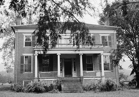 Clover Hill, State Route 1514, Patterson (Caldwell County, North Carolina) cropped